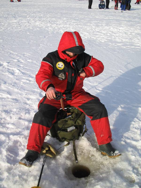 Ice fishing in the Finnish Miljoonapilkki fishing competition on 26 February 2005 in Töysä, Finland